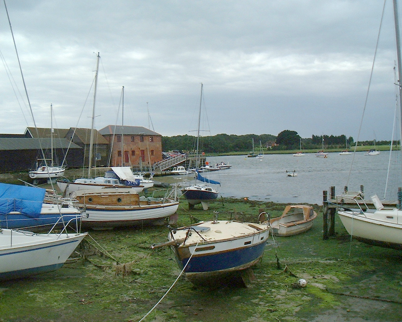 Dell Quay in Apuldram, July 28, 2007 For inclusion in Apuldram Website Photograph taken by Apuldram 17:49, 28 July 2007 (UTC)